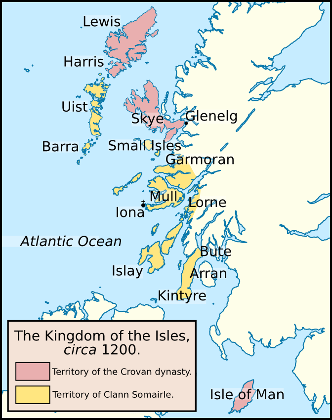 Map of the Kingdom of the Isles in about 1200. The lands controlled by the Crovan dynasty are coloured red; the lands controlled by the descendants of Somerled (Clann Somairle) are coloured yellow. Locations displayed on this map include: the Atlantic Ocean, Arran, Barra, Bute, Garmoran, Glenelg, Harris, Iona, Islay, Isle of Man, Kintyre, Lewis, Lorne, Mull, Skye, the Small Isles, and Uist. I based this map off one published in the following book: McDonald, R.A. (2007). Manx Kingship in its Irish sea Setting, 1187–1229: King Rǫgnvaldr and the Crovan dynasty. Four Courts Press. 978-1-84682-047-2.